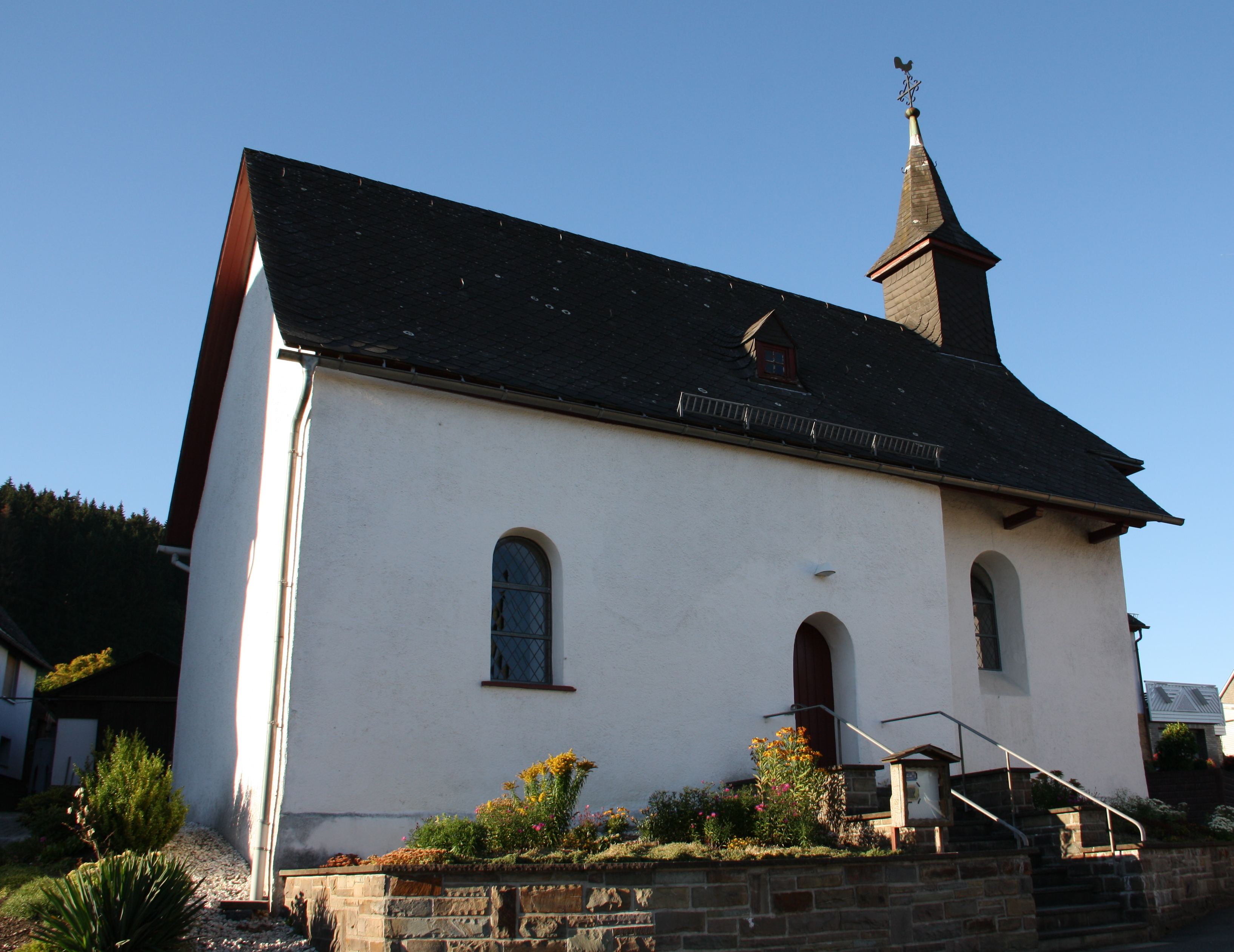 This is a photograph of an architectural monument., no. 087